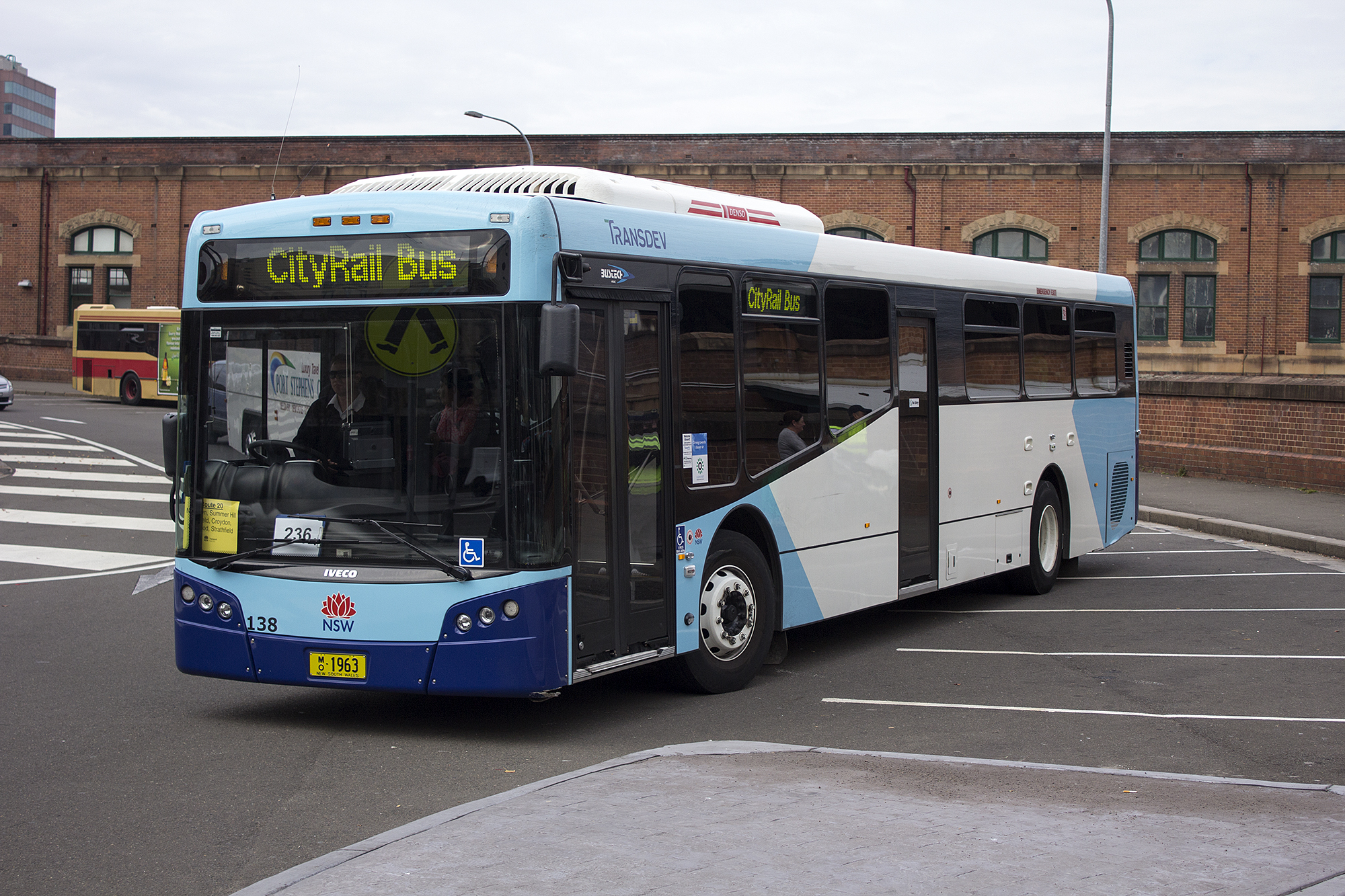 Transport NSW liveried (mo 1963), operated by Transdev Shorelink Buses, Bustech 'VST' bodied Iveco Metro at Central Station in Sydney.